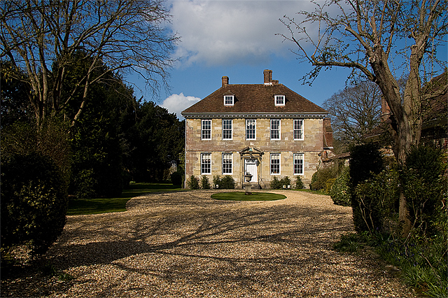 Houses of The Close: no. 59, Arundells Originally a C13 canonry, it was largely rebuilt in the C17, and has a rainwater head dated 1699. It is Grade II* Listed. The house was later occupied in the C18 by John Wyndham, who was responsible for its present look, and after the marriage of his daughter, gave away the house as a wedding present to his son-in-law James Everard Arundel. He was the son of the 6th Lord Arundel of Wardour, after whose family it was subsequently named. In more recent times, in 1985, Arundells became the home of Sir Edward Heath, former British Prime Minister, soldier, and Statesman. When he died at Arundells aged 89 in 2005, he left nearly all of his estate to a charitable foundation, whose trustees were tasked with opening Arundells to the public in perpetuity.